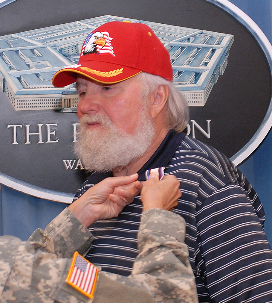 Charlie Daniels, Country/Southern Rock Musician, is presented the Office of the Secretary of Defense Medal for exceptional public service during a visit to the Pentagon